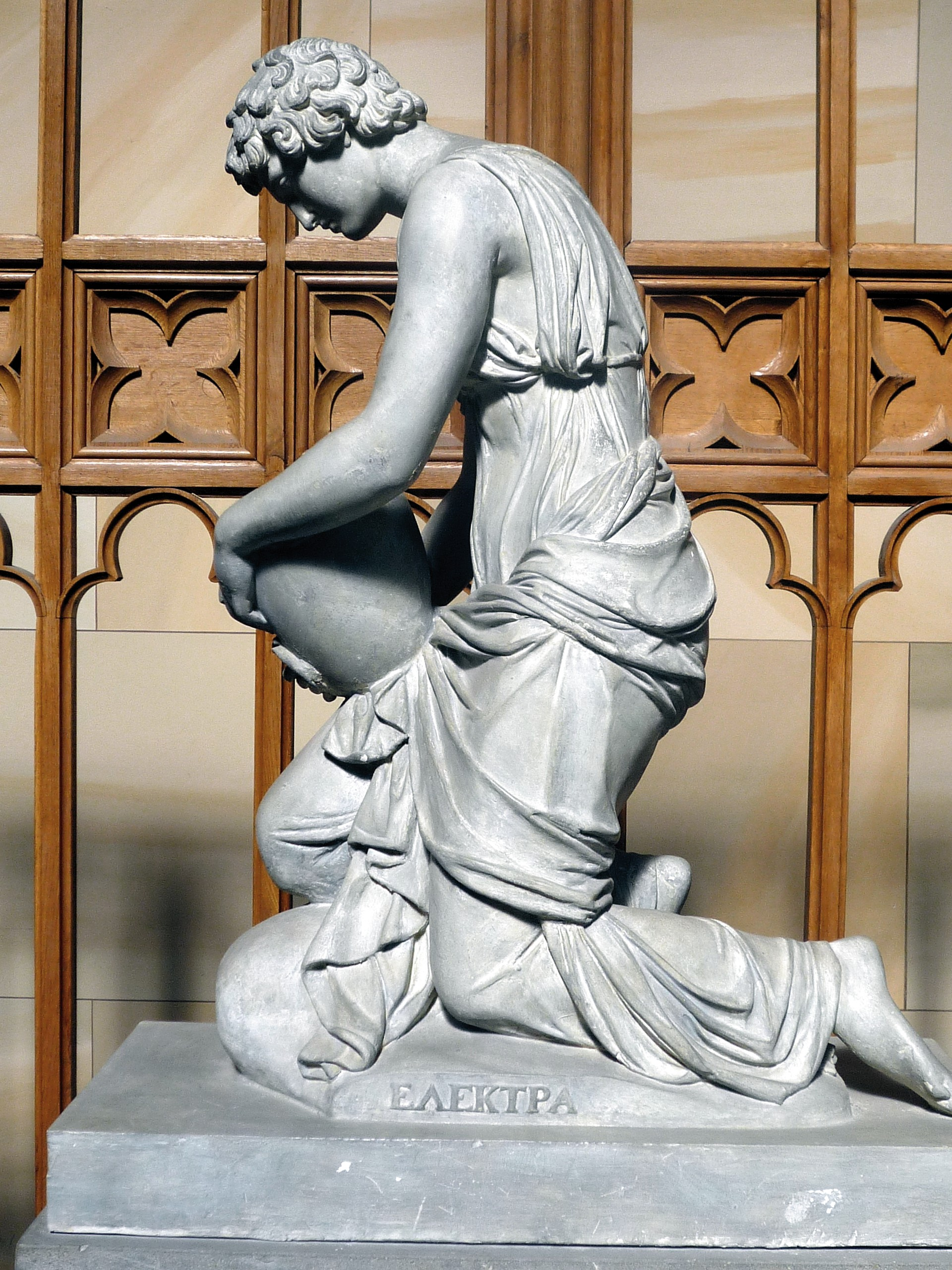 "Elektra", a sculpture by Christian Friedrich Tieck, 1824. Present location: "Friedrichswerdersche Kirche", today used as "Schinkelmuseum", in Berlin-Mitte.